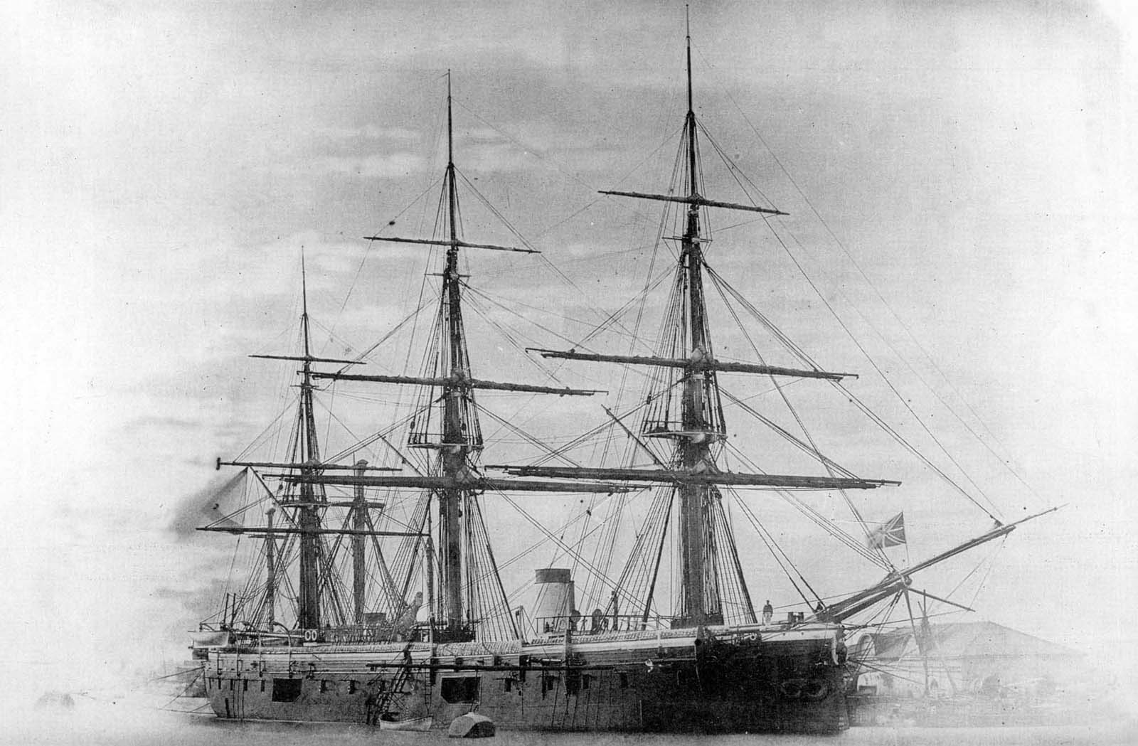 Imperial Russian armoured cruiser Kniaz' Pozharskii.